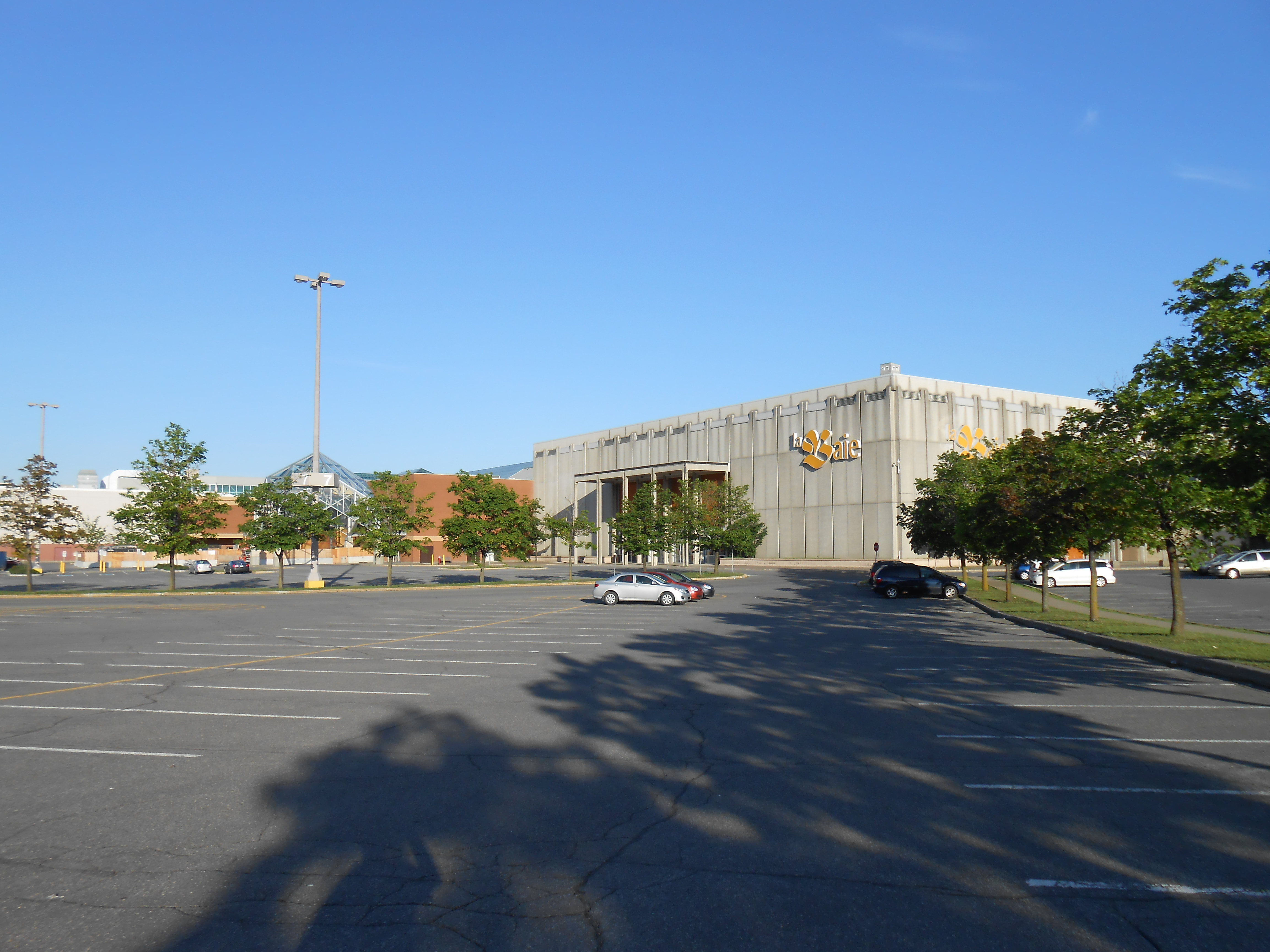 Fairview Pointe-Claire, also called Fairview Centre, is one of the biggest super regional shopping malls on the island of Montreal with about 1,000,000 square feet (92,900 m2) spread on two levels of shopping space. It is located in the city of Pointe-Claire at the intersection of Trans-Canada Highway and Saint-Jean Boulevard.